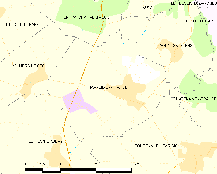 Map of French municipality Mareil-en-France